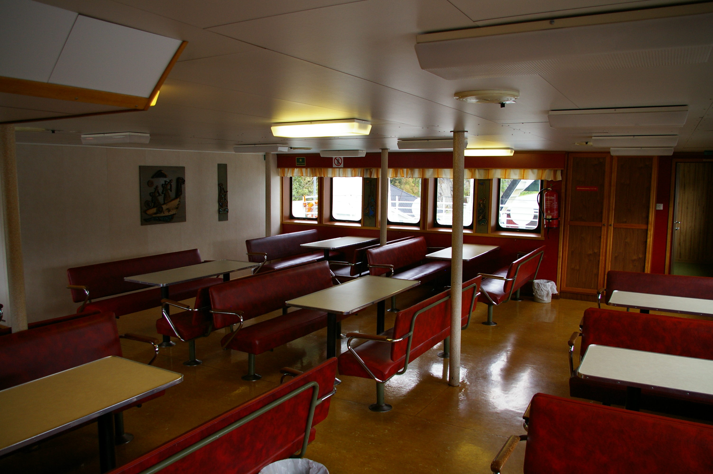 The interior of an old car ferry in Norway.